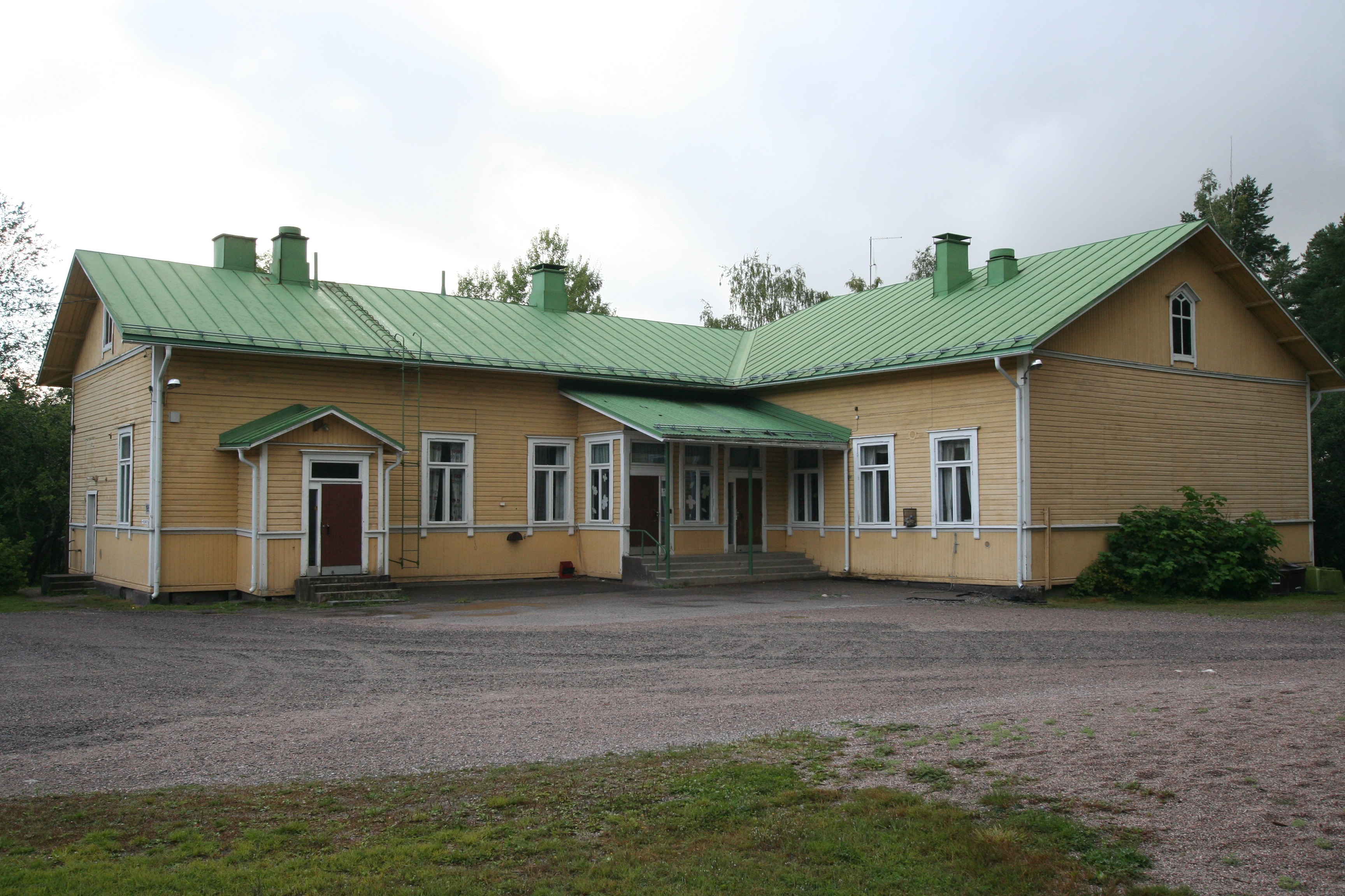 Mallusjoki School, Orimattila, Finland.